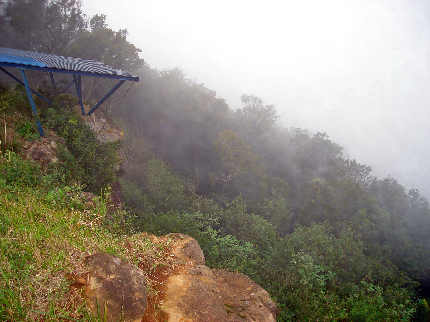 A start ramp for air sports from the peak of Ferrabraz, Sapiranga, state of Rio Grande do Sul, Brazil.